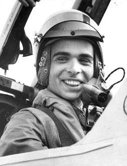 On a trip to the United Kingdom